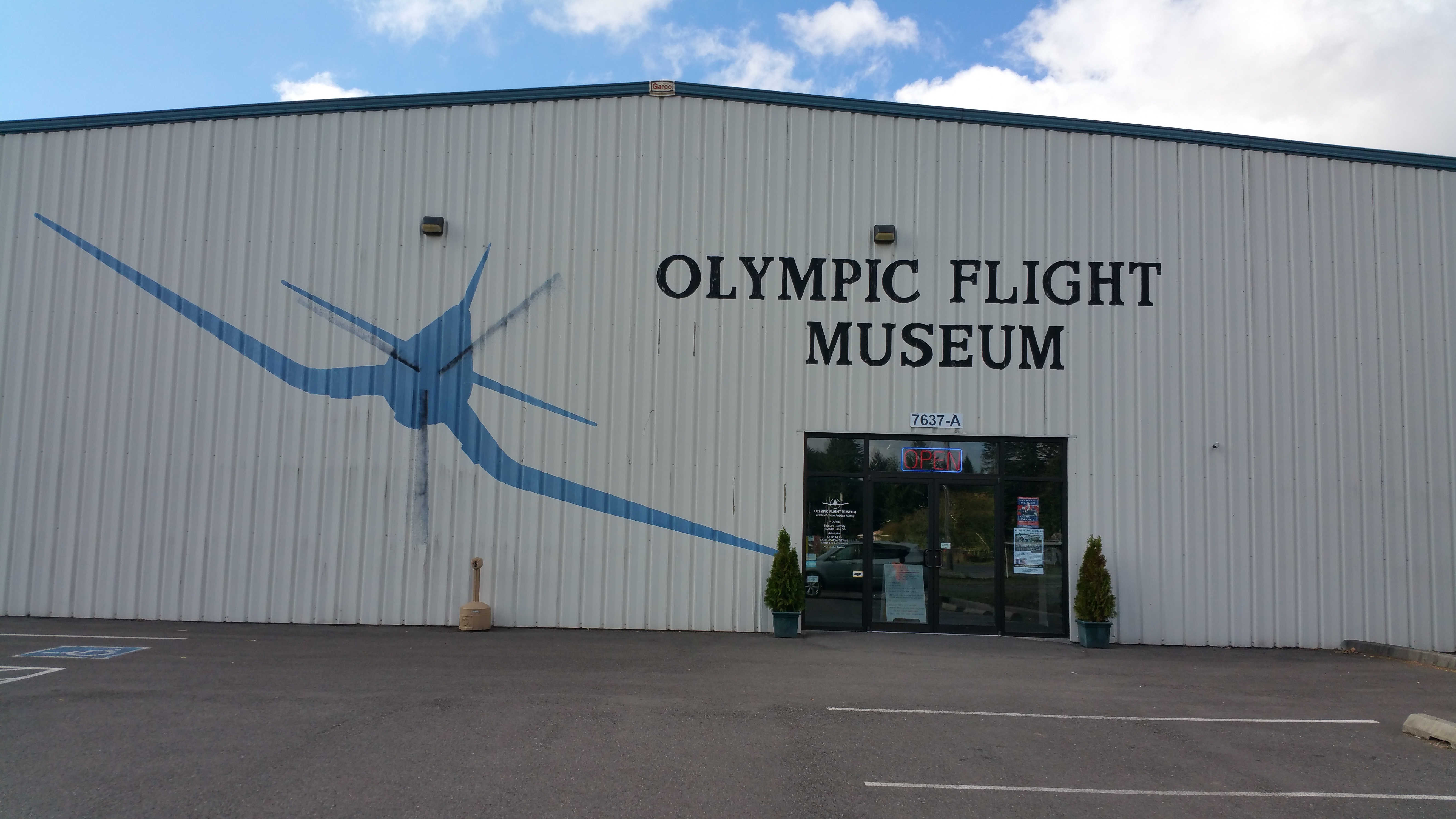 Olympic Flight Museum front of the Building